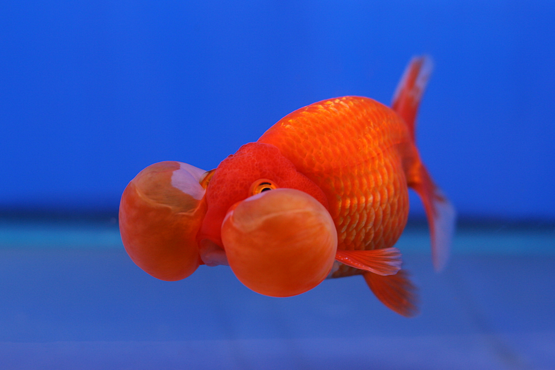 A bubble eye goldfish from The 7th "Pramong Nomjai Thaituala" Thailand Tropical Fish Competition 2008.